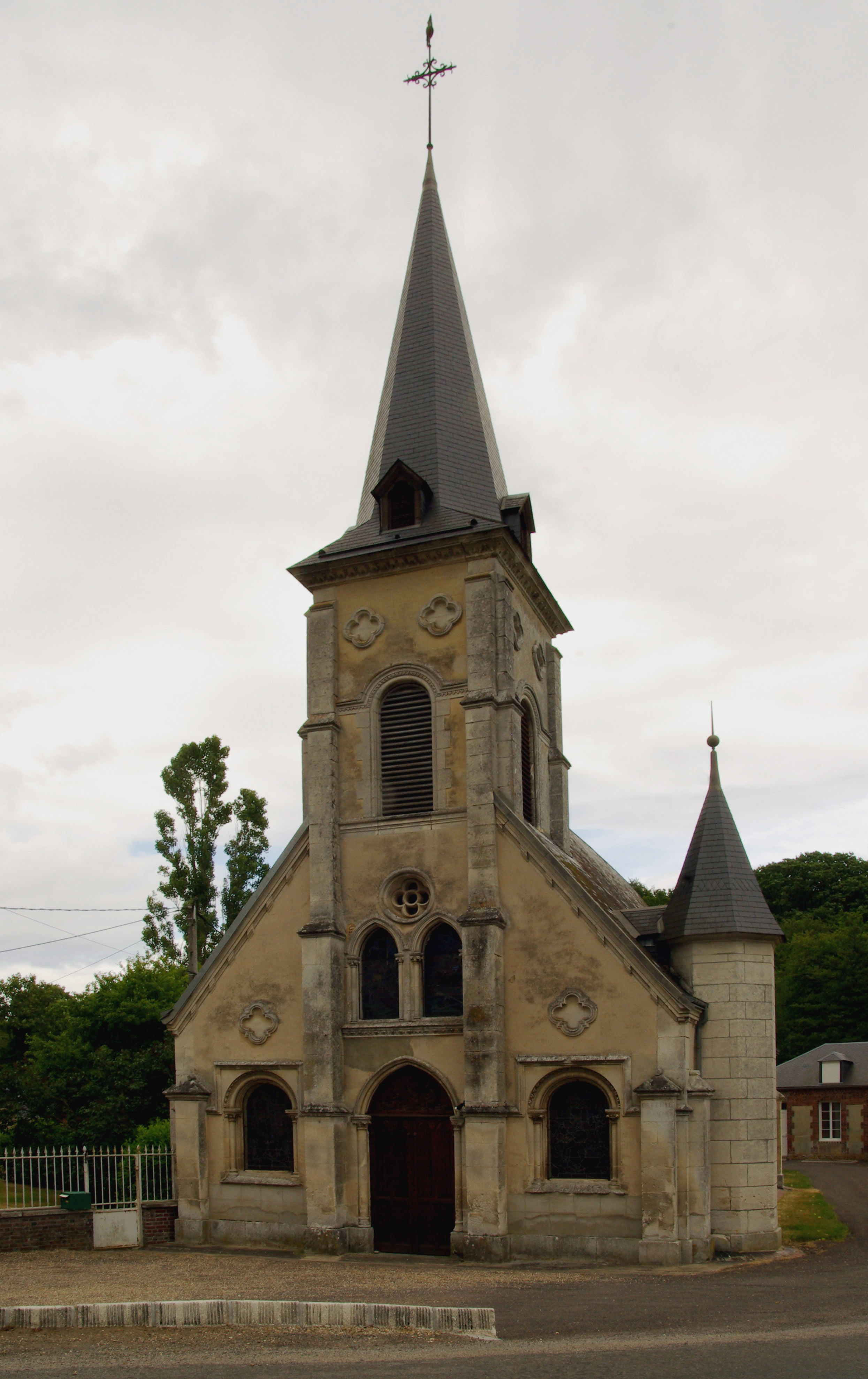 Church Saint-Quentin-des-Isles